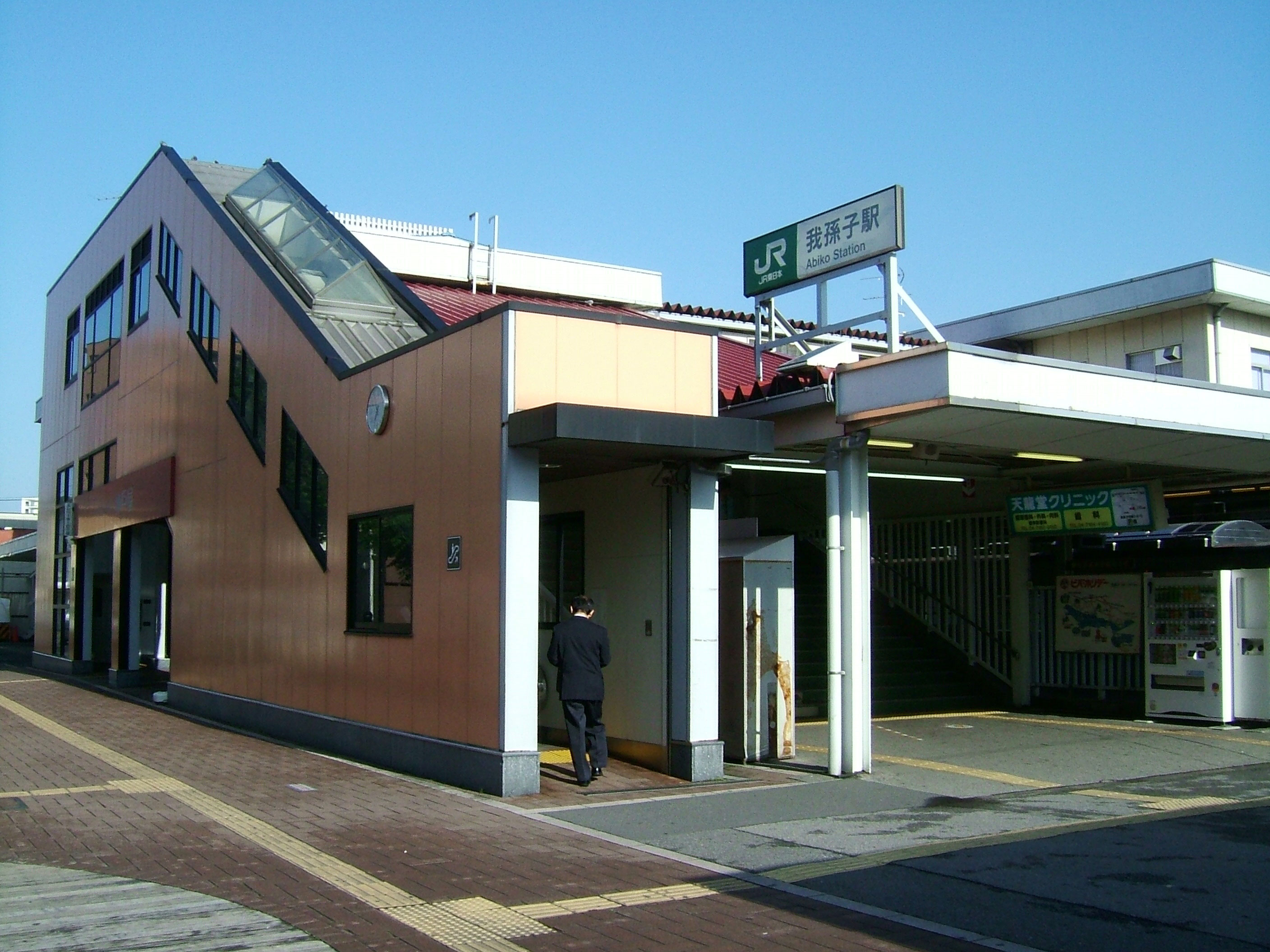 Abiko Station south entrance (East Japan Railway Jōban Line, Narita Line)